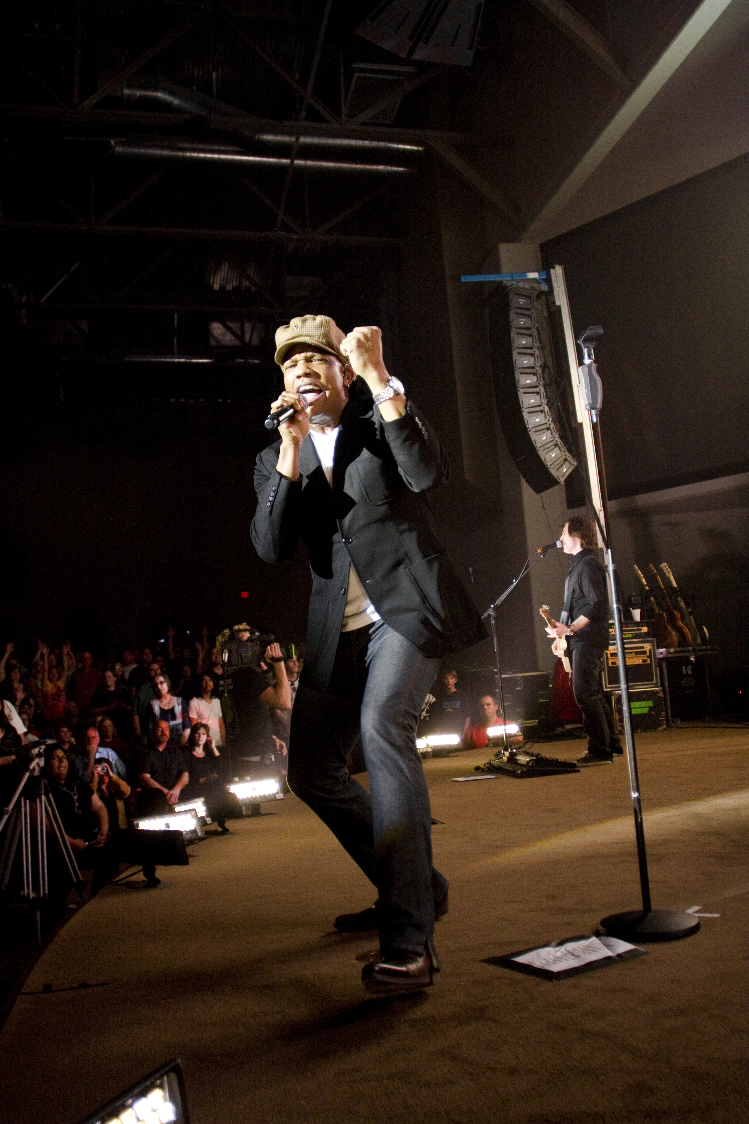 Michael Tait performing with the Newsboys in March 2009.